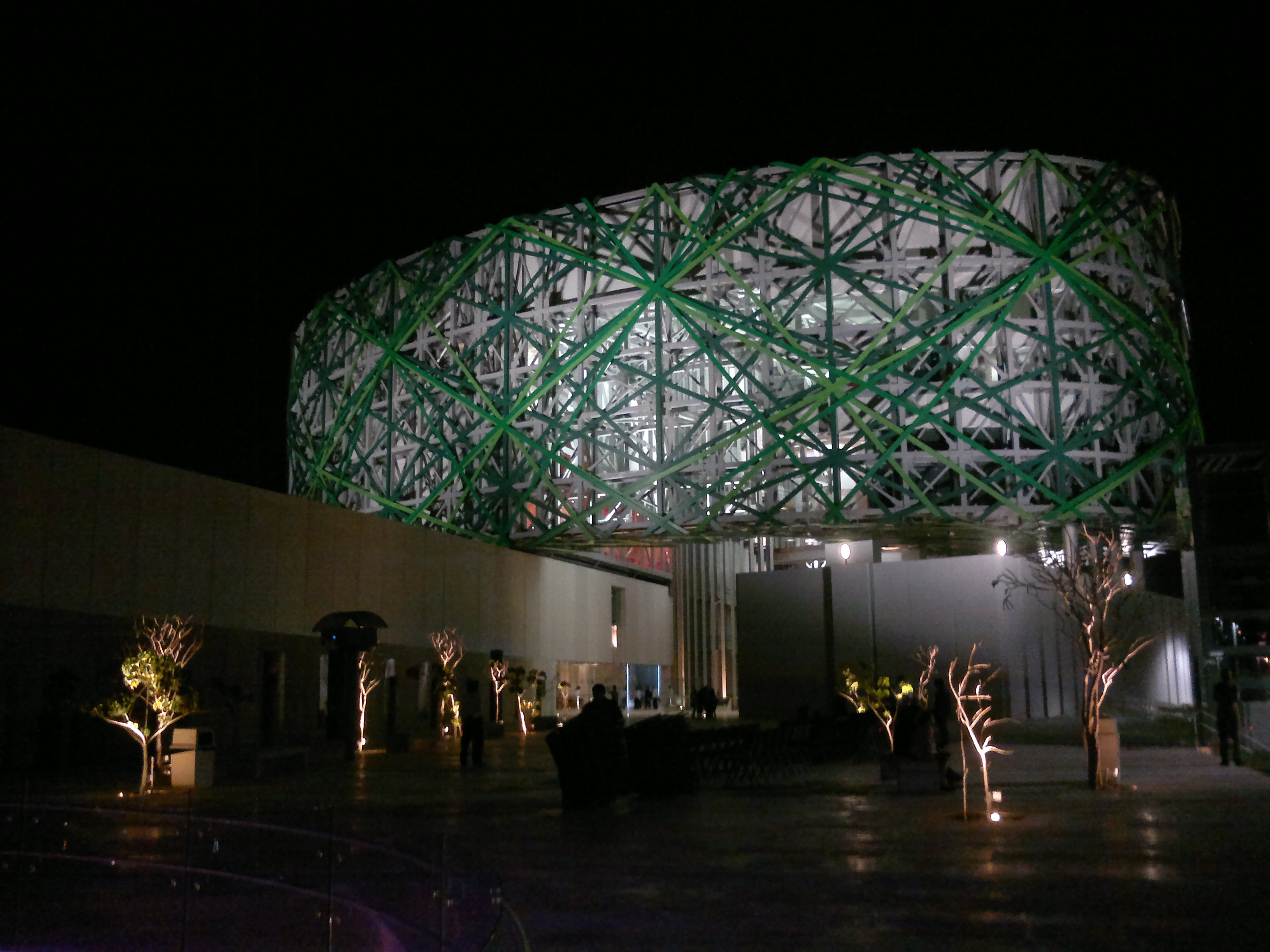 Night view of the Great Maya Museum of Merida (Gran Museo Maya de Mérida), in Mexico.